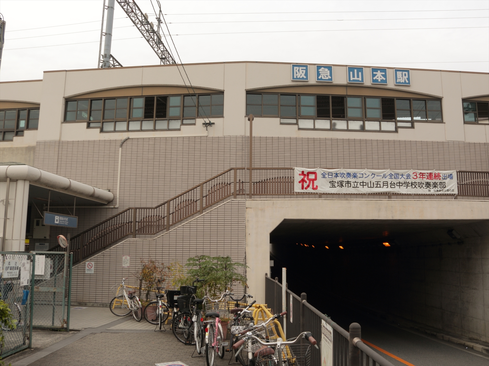 South Entrance from Yamamoto Station (Hyōgo).